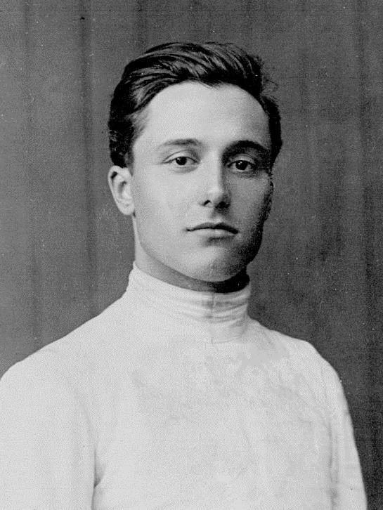 Portrait of Nedo Nadi of Italy, a competitor in the Fencing Individual Foil event at the 1912 Olympic Games in Stockholm, Sweden. Nadi won the gold medal in this event.